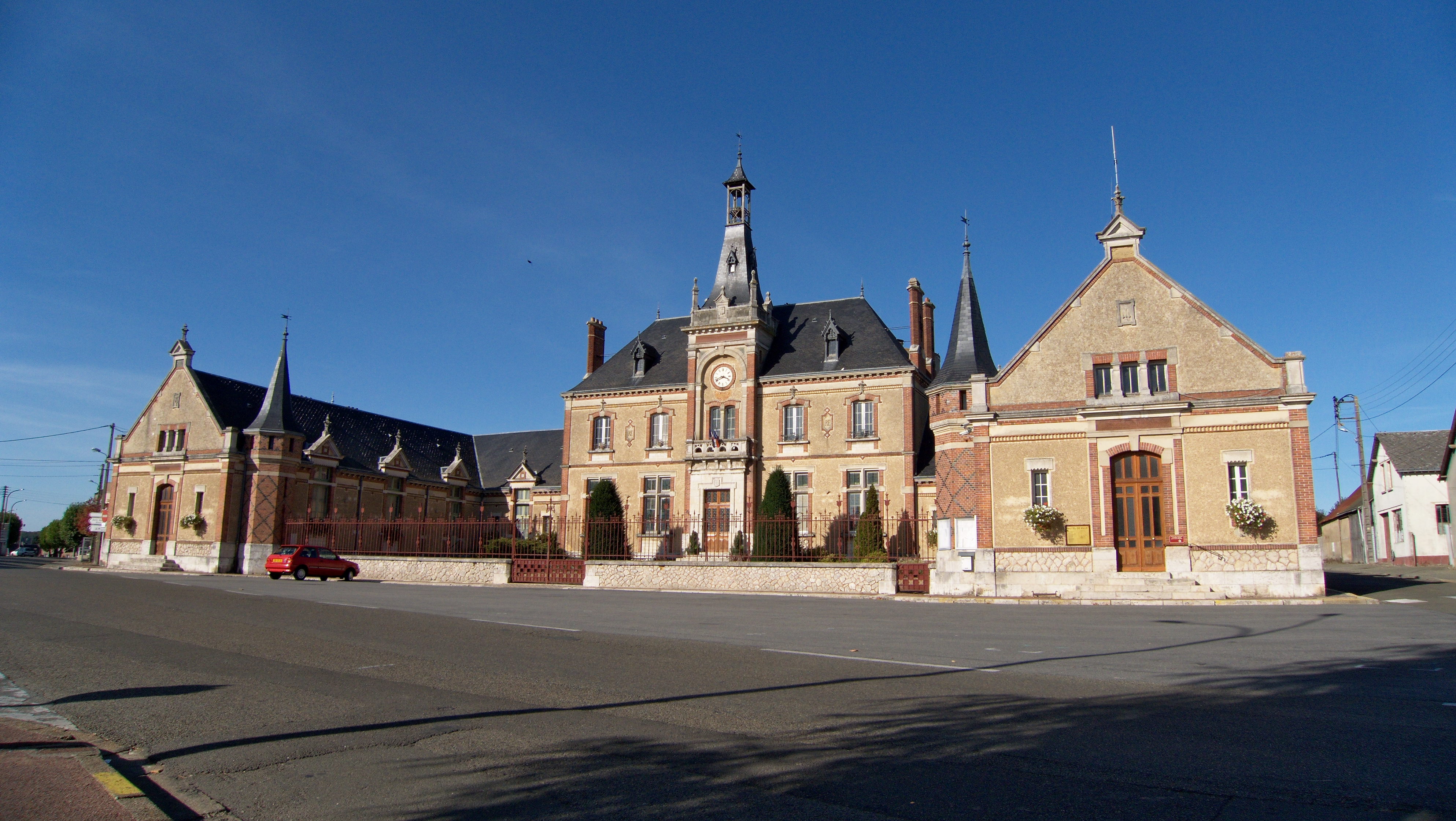 Brou city hall, Eure-&-Loir (28) France